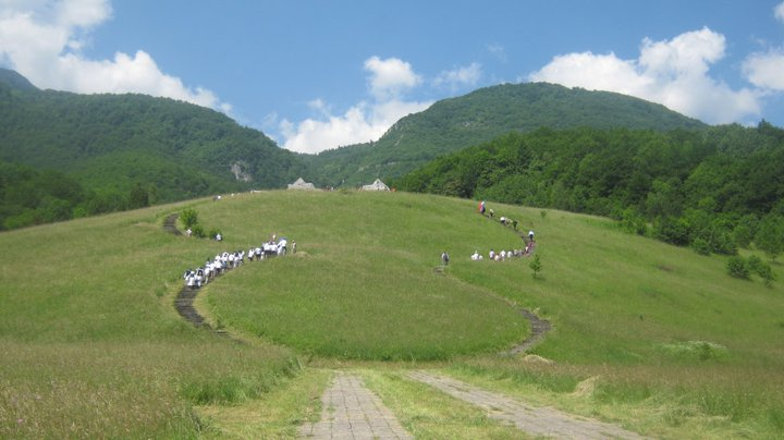 This image was uploaded as part of Trace of Soul 2016.